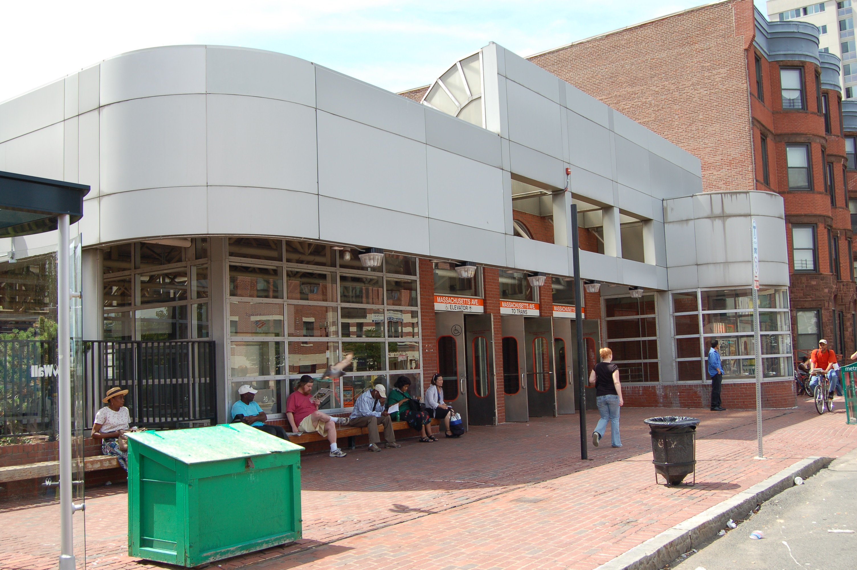 Headhouse of the Massachusetts Avenue stop on Boston's MBTA Orange Line